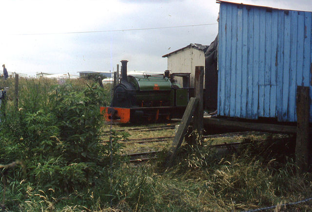 The old sheds of the Lincolnshire Coast Light Railway